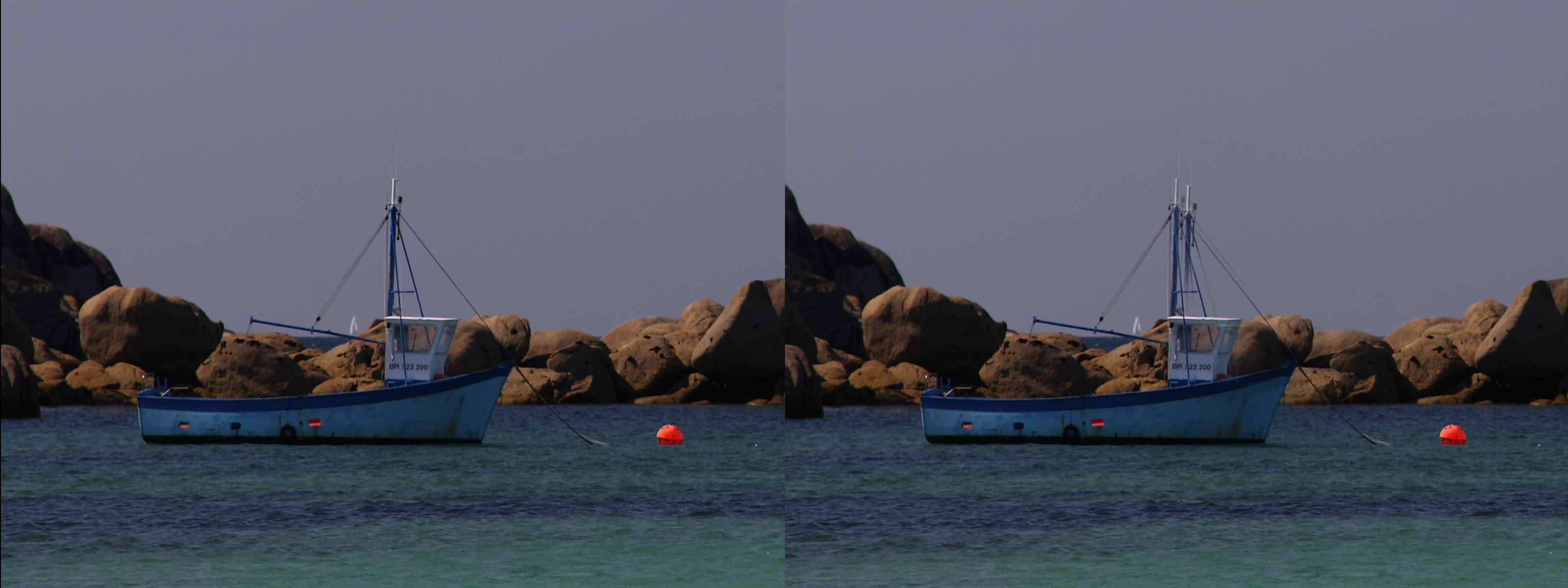 An example of how someone with strabismus sees the world (right) vs. someone with normal vision (left). Here only the effect of diplopia (double vision) is depicted. Notice that double vision generally only occurs in a very small region in the centre of the field of view.